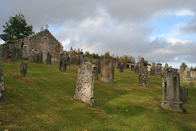 Boharm Parish Kirkyard, Banffshire. At the top of the old kirkyard is the south gable of NJ3246 : Boharm Parish Kirk, one of two chapels attached to the former parish kirk.